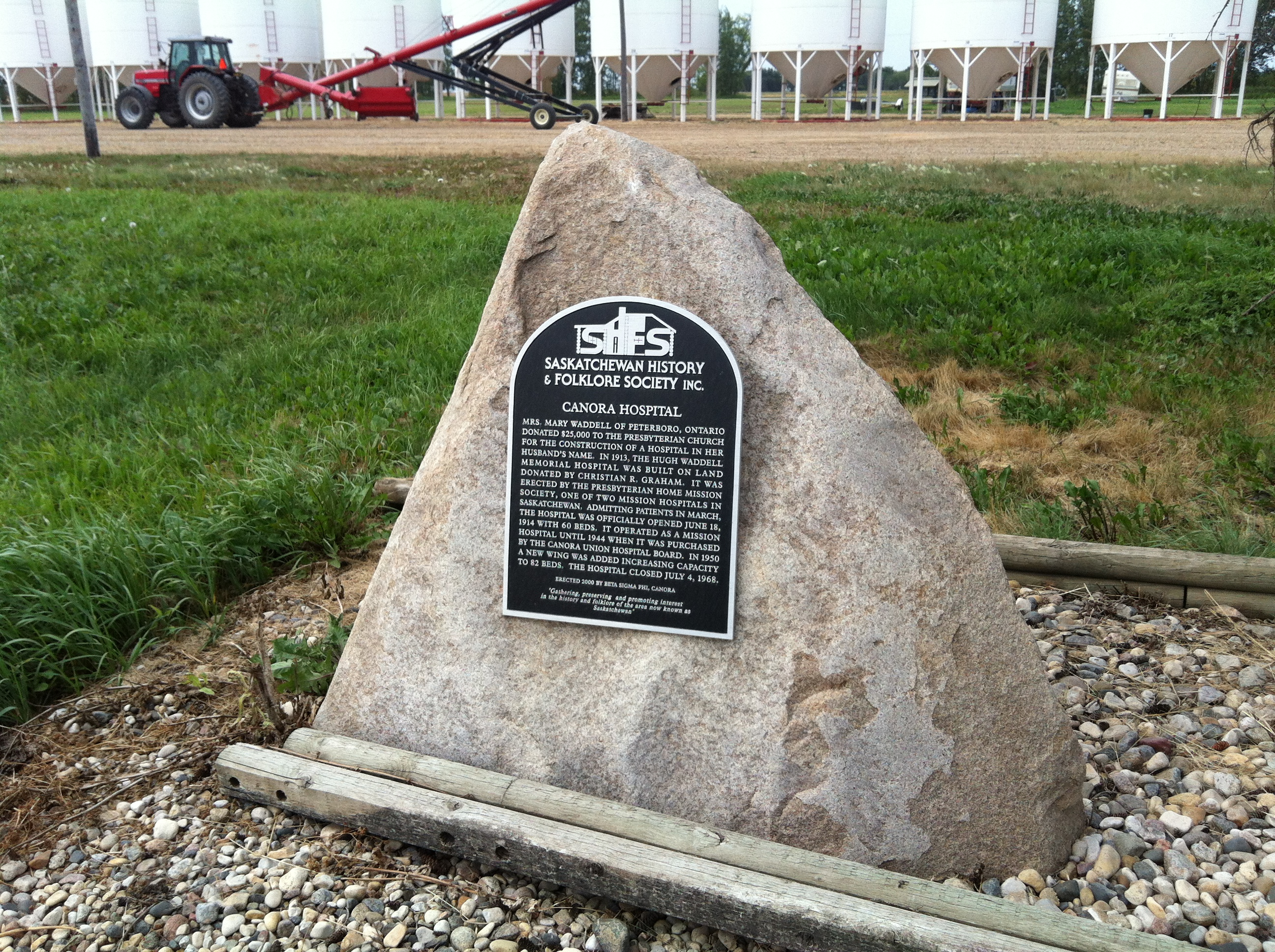 Hugh Waddell Memorial - Old Canora Hospital.